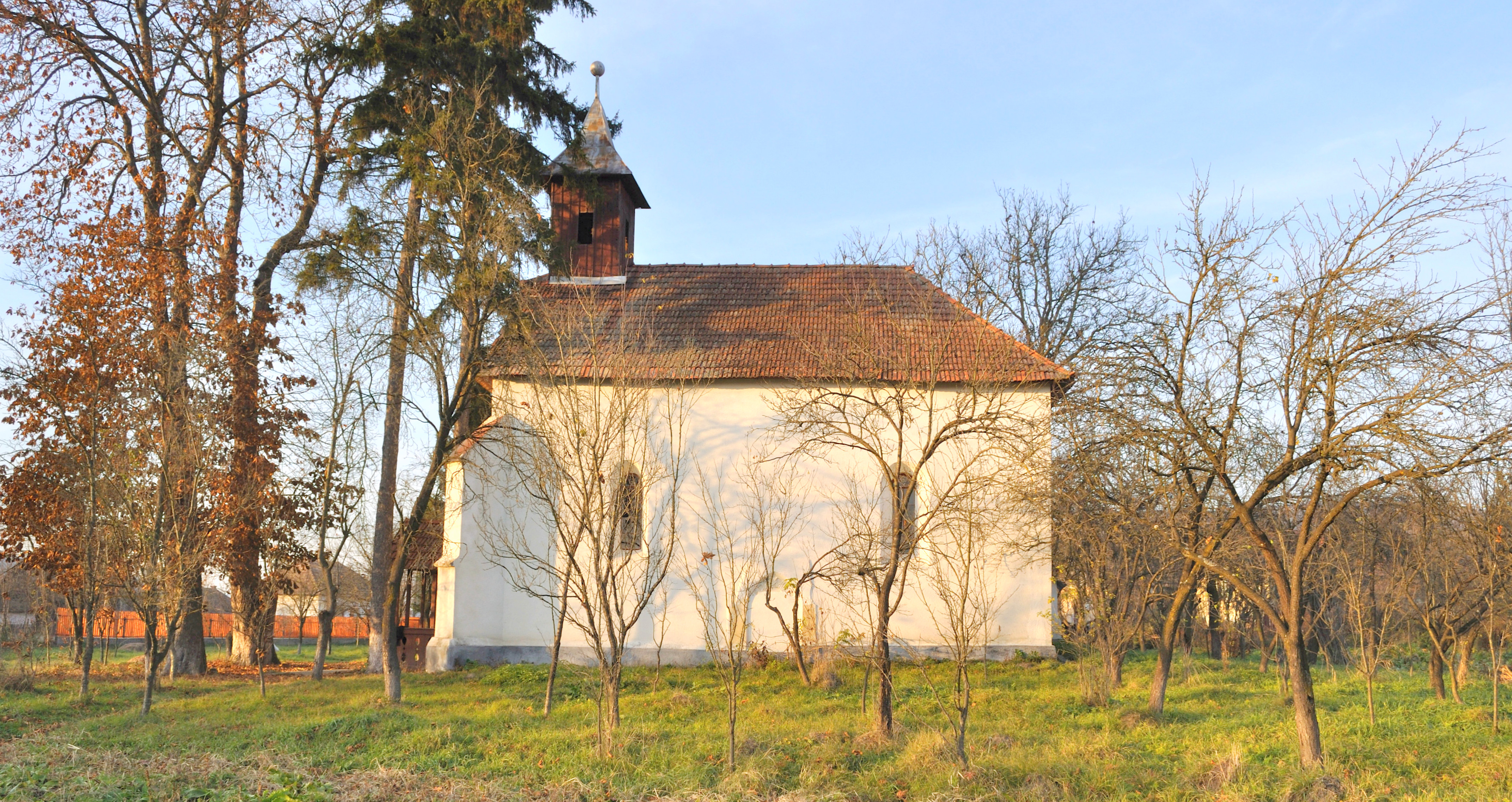 Reformed church in Stoiana, Cluj Countz, Romania